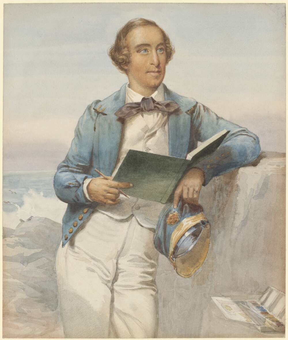 Portrait of George French Angas (1822-1886), frontispiece to "The Kafirs illustrated" Creator: Baugniet, Charles, 1814-1886 Title: George French Angas, 1848 / Charles Baugniet Call Number: PIC Solander Box A17 #PIC/18821/1 Created/Published: 1848 Extent: 1 painting : watercolour; 31.1 x 26.1 cm Items: 2 Physical Context: PIC Solander Box A17 #PIC/18821/1-George French Angas, 1848